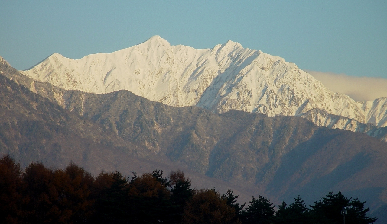 Kashimayarigatake_from_Oomachi_2001-11-18